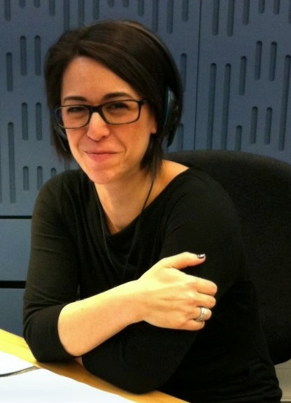 About half way through this afternoon's In Tune, Radio 3's drivetime show.